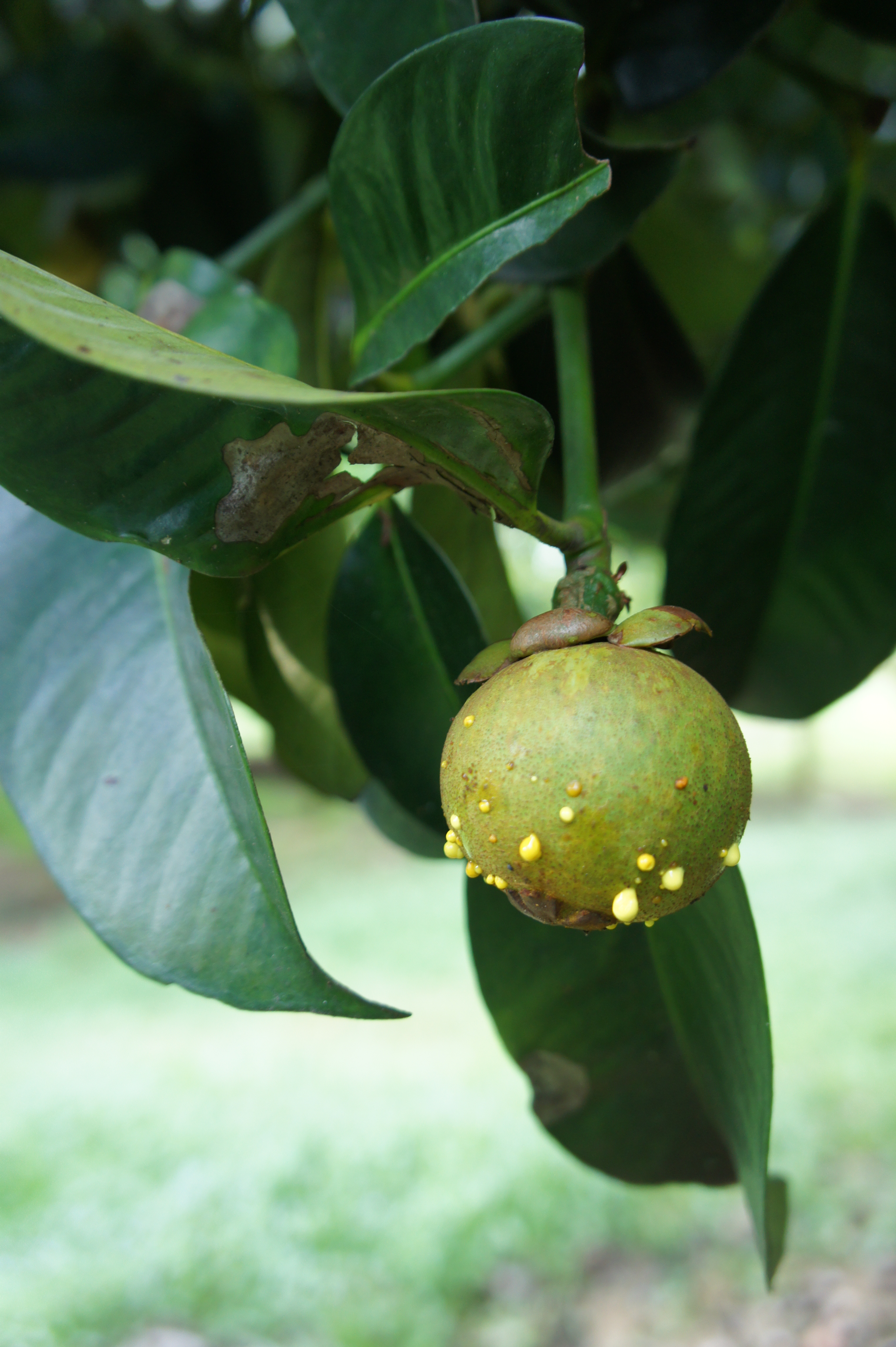 Immature fruit of Garcinia mangostana, exsuding yellow latex typical of Guttiferae family. Location: Serdang, Selangor, Malaysia.